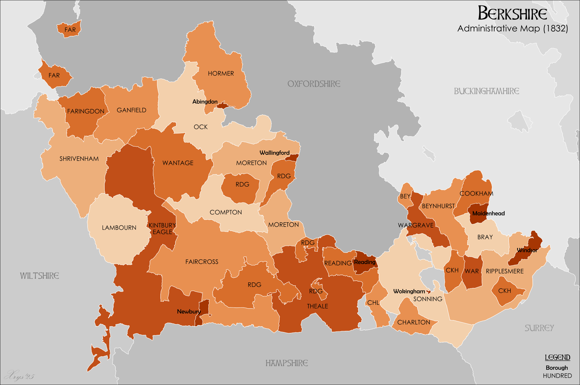 Administrative map of Berkshire in 1832 showing Hundreds. Also showing extant Boroughs. Hundred boundaries from University of Nottingham English Place Name Society. Source data for parish boundaries - Kain, R.J.P., and Oliver, R.R. (2001) "Historic parishes of England and Wales". Unit names and Borough Boundaries from Vision of Britain website.